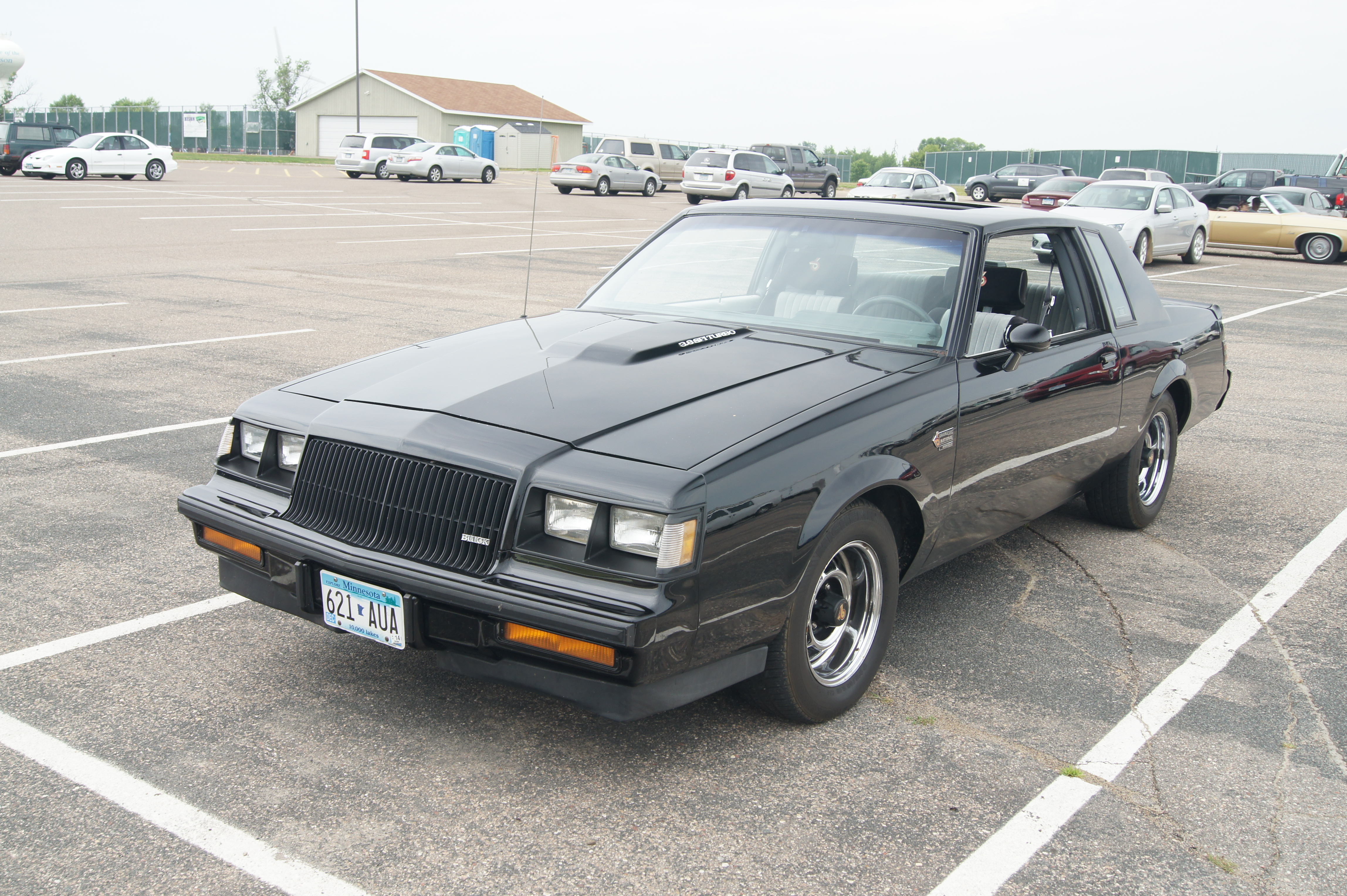 28th Annual New London to New Brighton Antique Car Run Lunch Stop Buffalo High School Buffalo Minnesota Mile 78.8 More Car Pictures